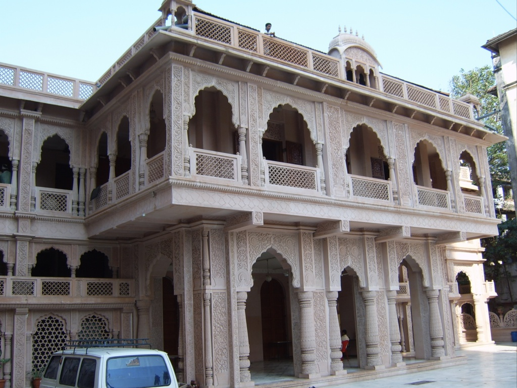 The ISKCON temple in Chowpatty, Mumbai, India.